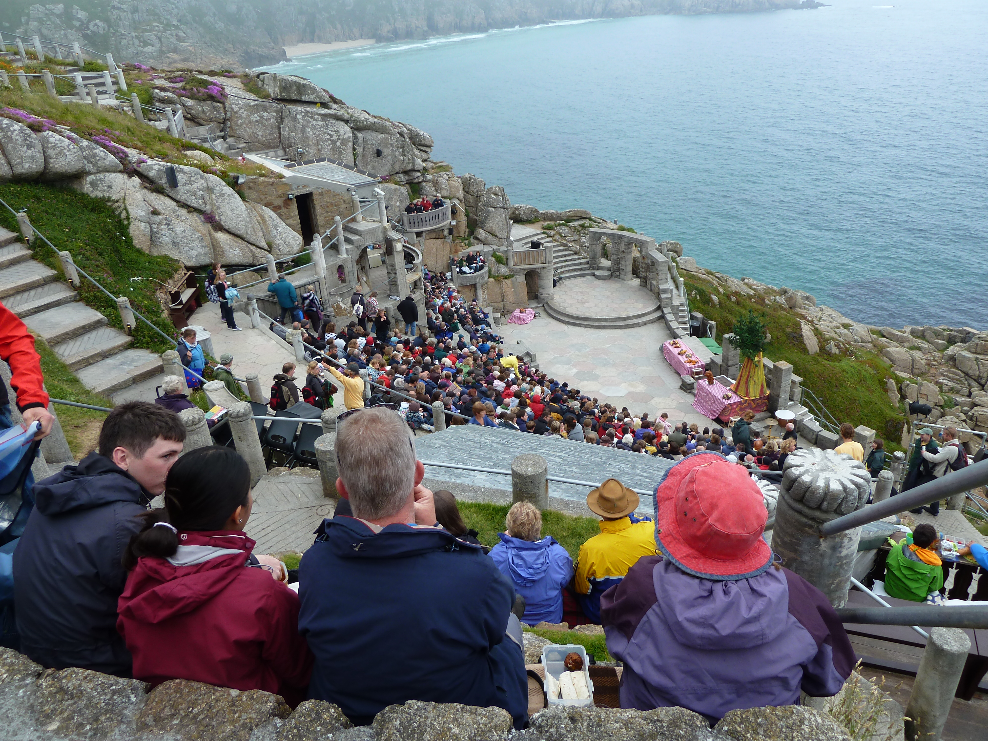 Sitting waiting for a show to begin at the Minack Theatre, audience all seated